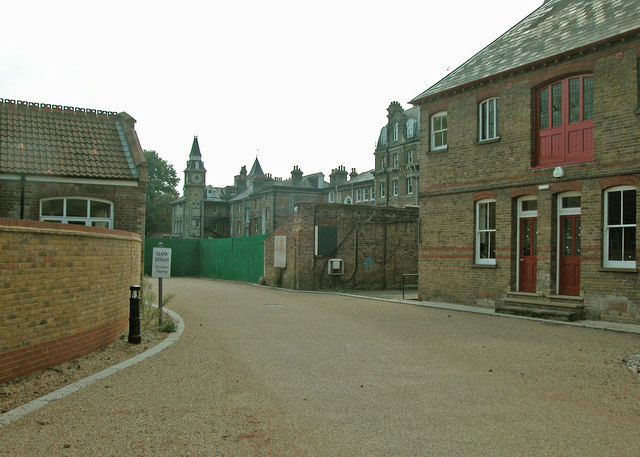 Normansfield Hospital The near derelict former hospital building where Doctor Langdon Down conducted the pioneering research into the syndrome which is now known as Down's Syndrome. On the right of the picture is the restored Victorian theatre built by Dr Langdon Down for the use of the patients. To the left the former hospital workshops which have re-developed as social housing.